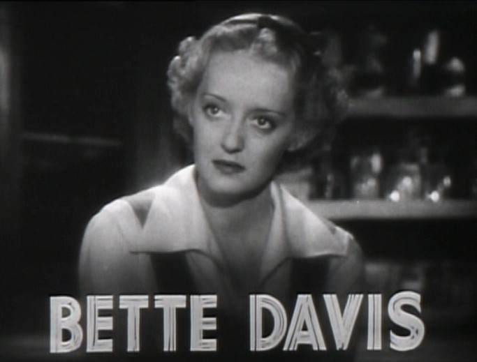 Cropped screenshot of Bette Davis from the trailer for the film The Petrified Forest.